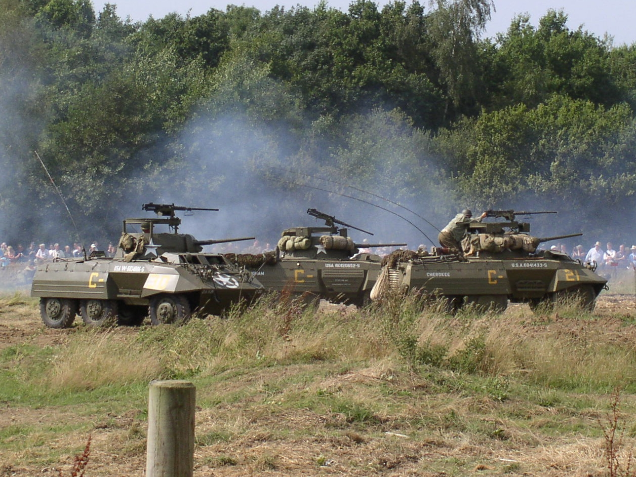 War and Peace Show at The Hop Farm in Beltring, England